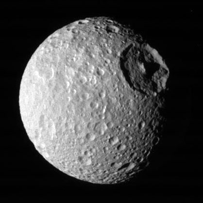 Image of Mimas, moon of Saturn taken by the Cassini probe on August 1, 2005 at approximately 189,410 kilometres away.